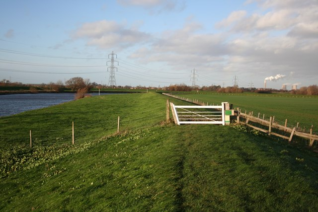 Trent Valley Way Looking north along the Trent bank near Clifton